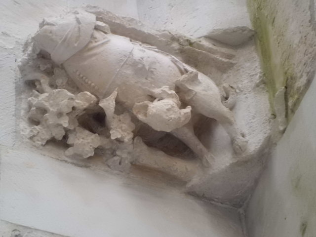 Romé house, pig having a toothache